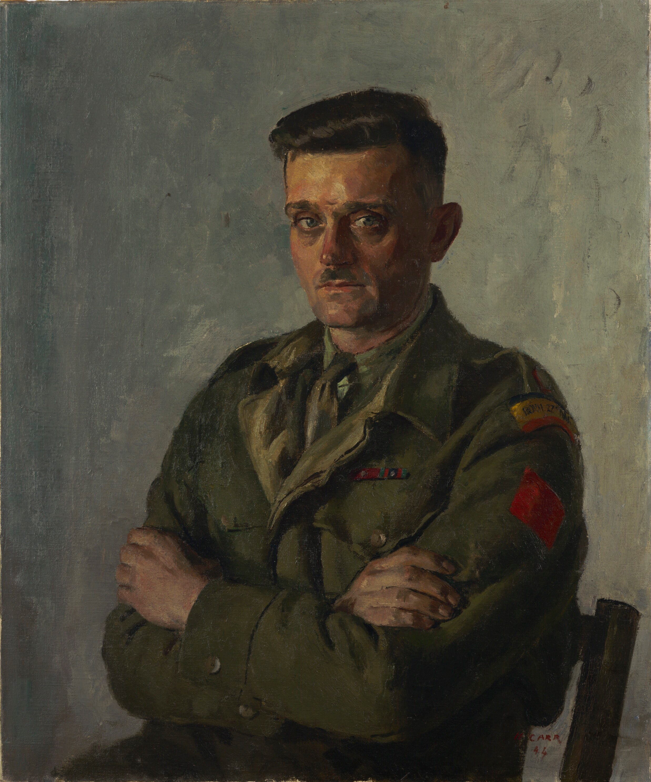 Major Paul Triquet, Vc - of Cabano, Province of Quebec image: a half-length portrait of Major Paul Triquet, shown in uniform, seated with his arms crossed.